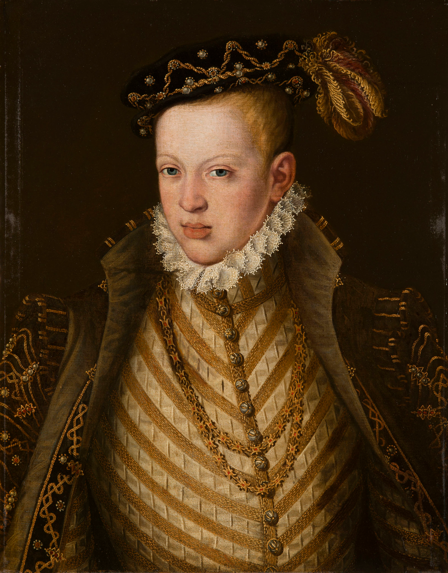 Portrait of Sebastian, King of Portugal (1554-1578)